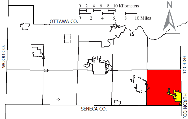 Made by the US Census and modified by User:Frank12